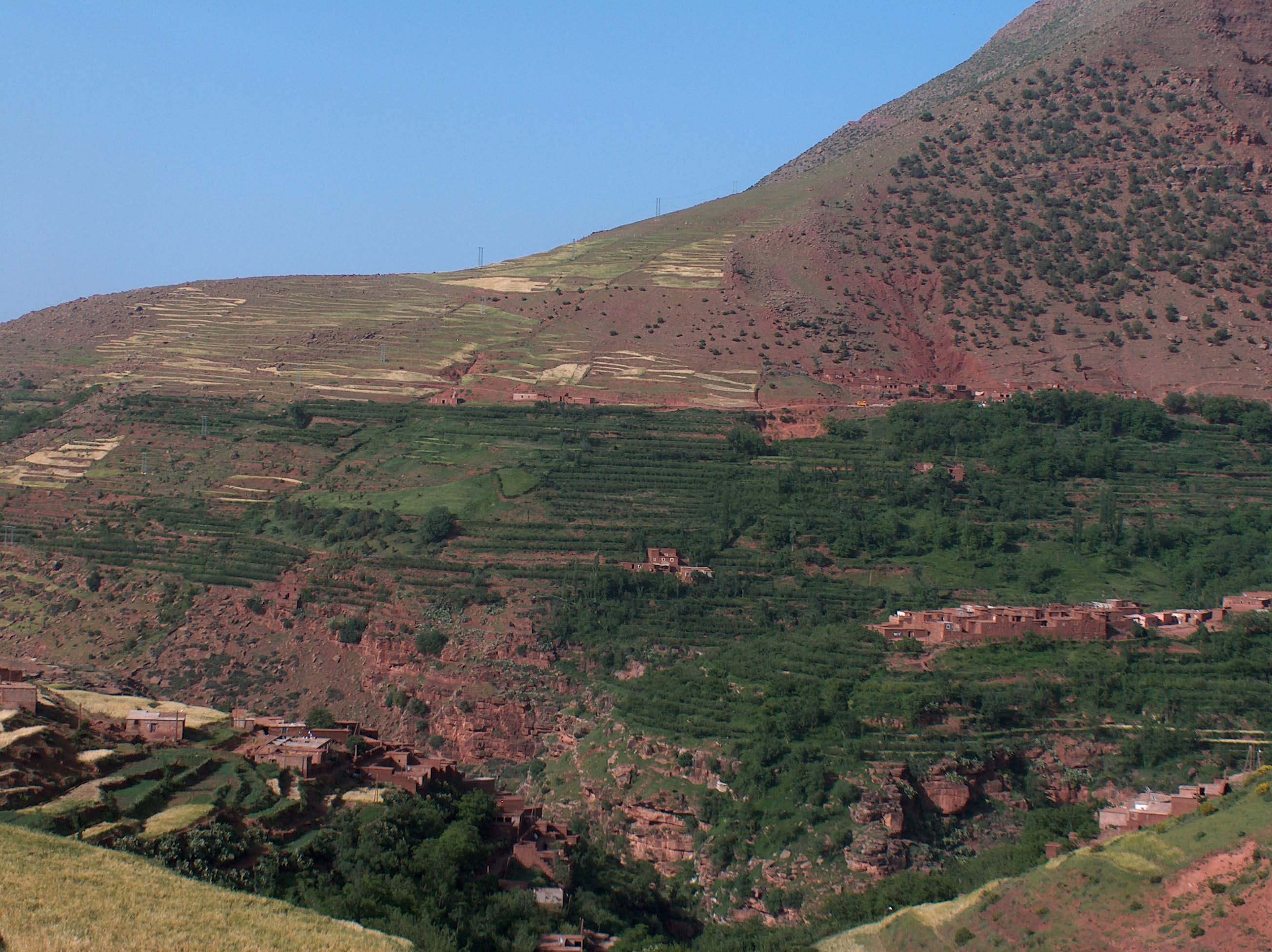 A village overlooking the Ourkia River